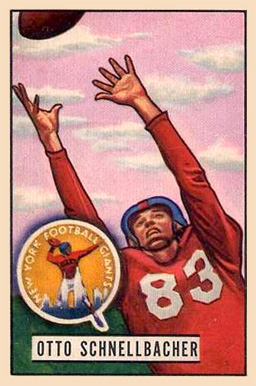 American football player Otto Schnellbacher on a 1951 Bowman card.